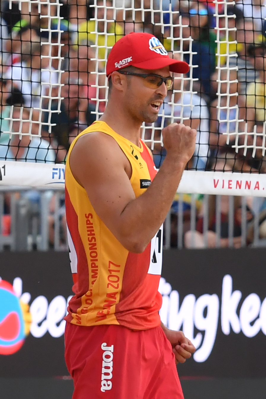 28/7/17, Vienna, Austria, sports, beach volleyball, FIVB Beach Volleyball World Championships.